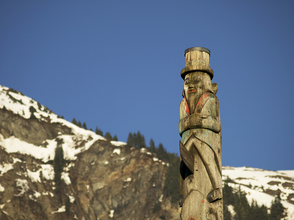 Lincoln Totem